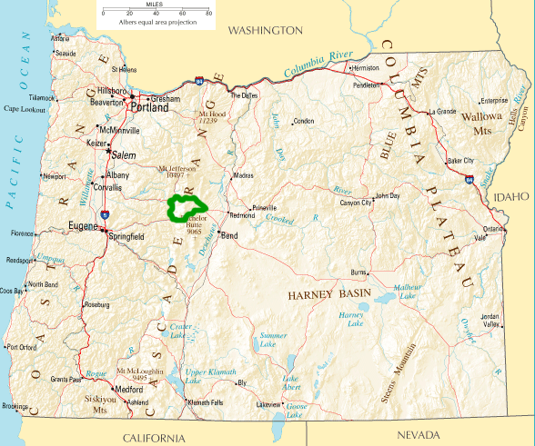 McKenzie-Santiam Pass Scenic Byway in Oregon. Route shown highlighted in green. © 2004 Matthew Trump based on :Image:National-atlas-oregon.png